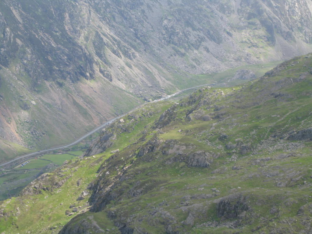 The view down to Llanberis Pass from near Clogwyn station.